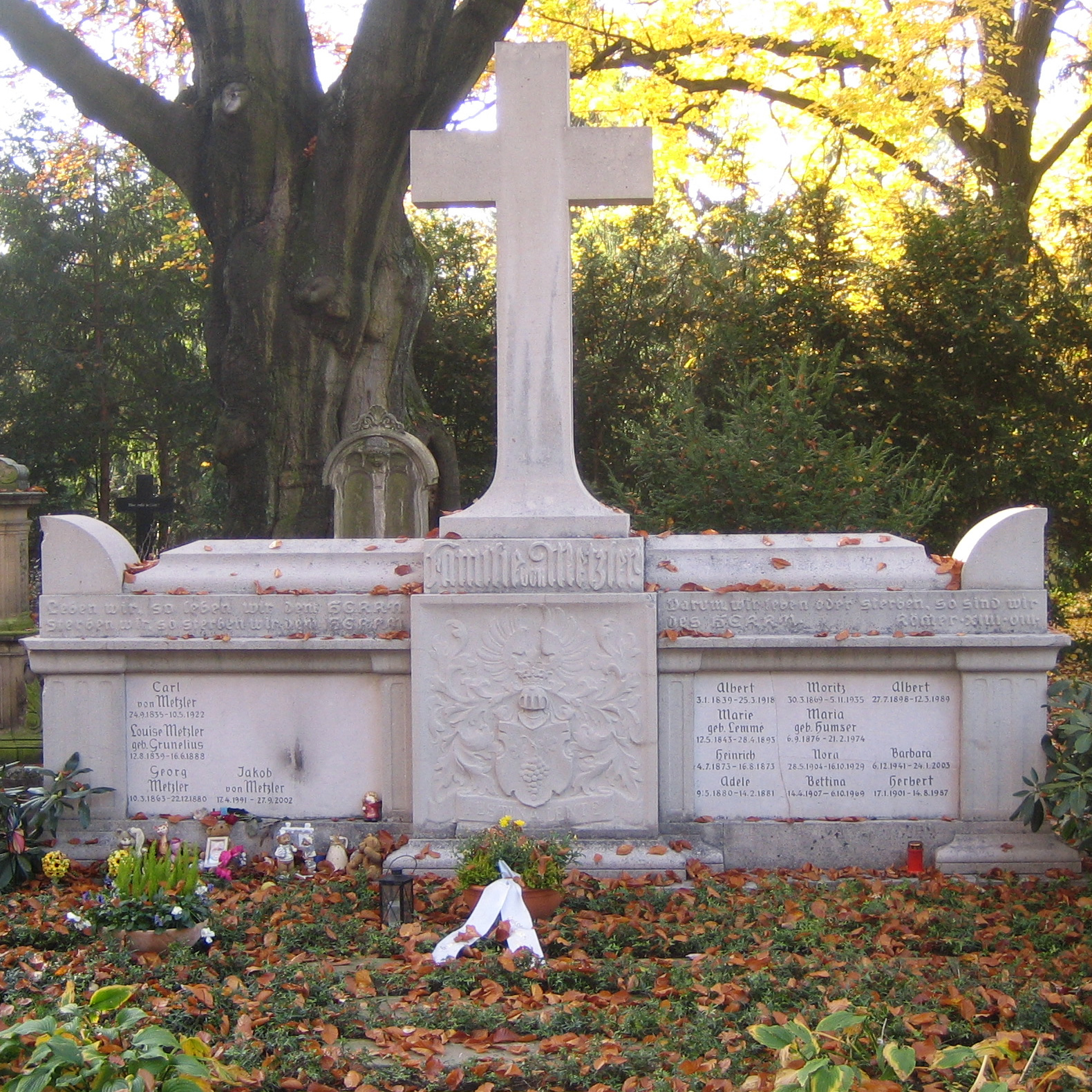 Grave of family Metzler, Hauptfriedhof (central cemetery) Frankfurt am Main